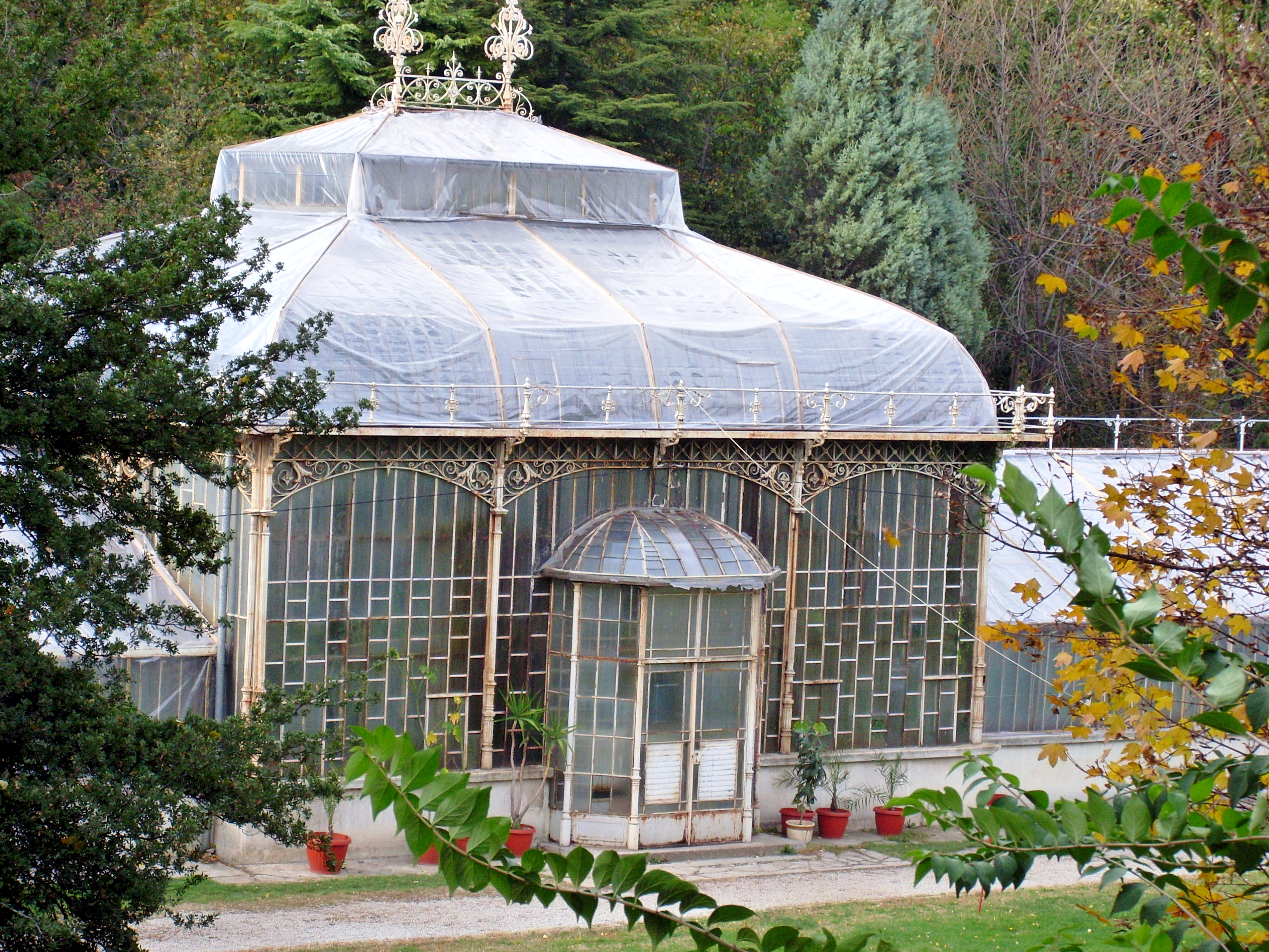 Greenhouse in the Botanical Garden Jevremovac Belgrade